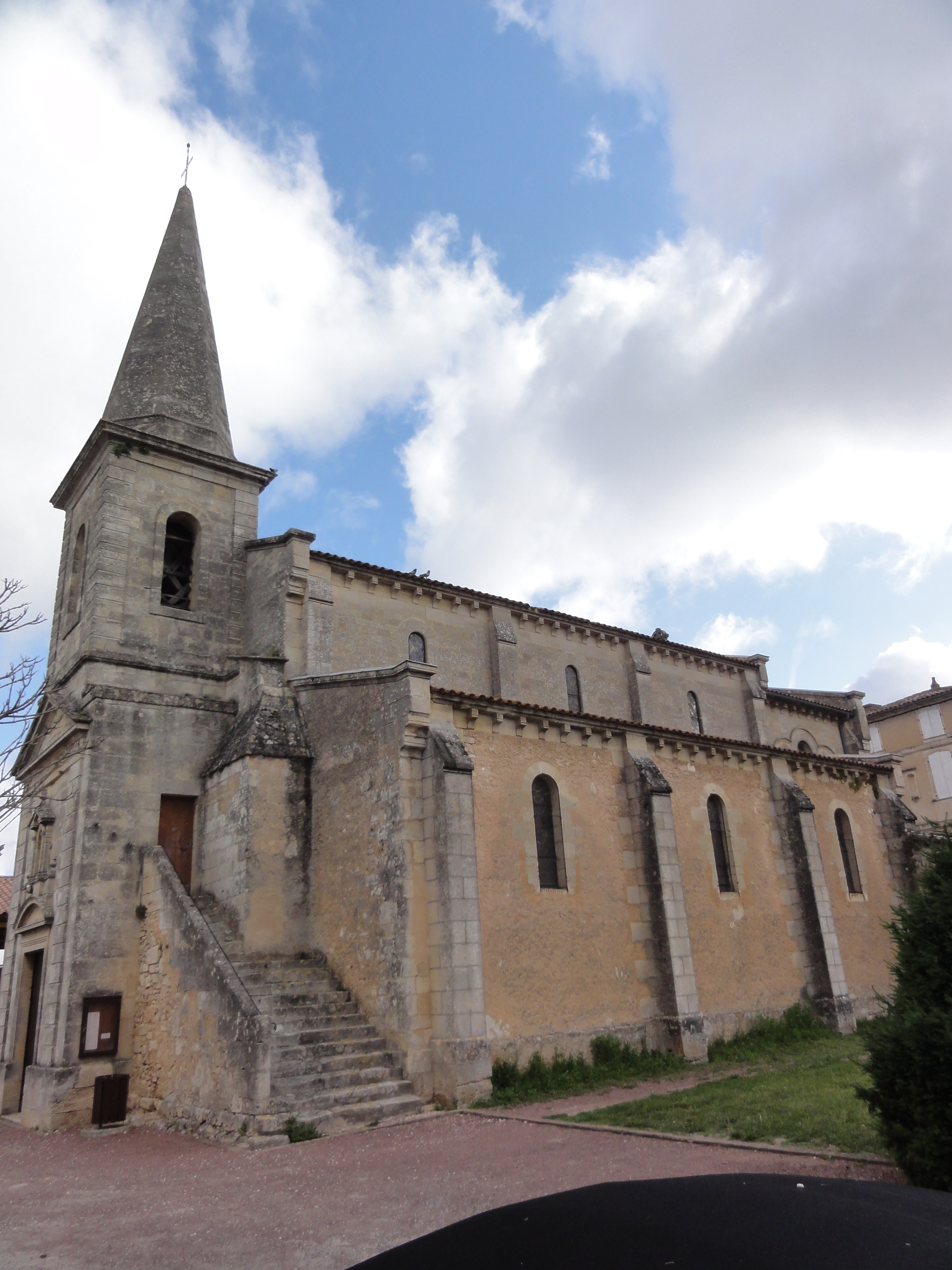 Plassac (Gironde) église 01